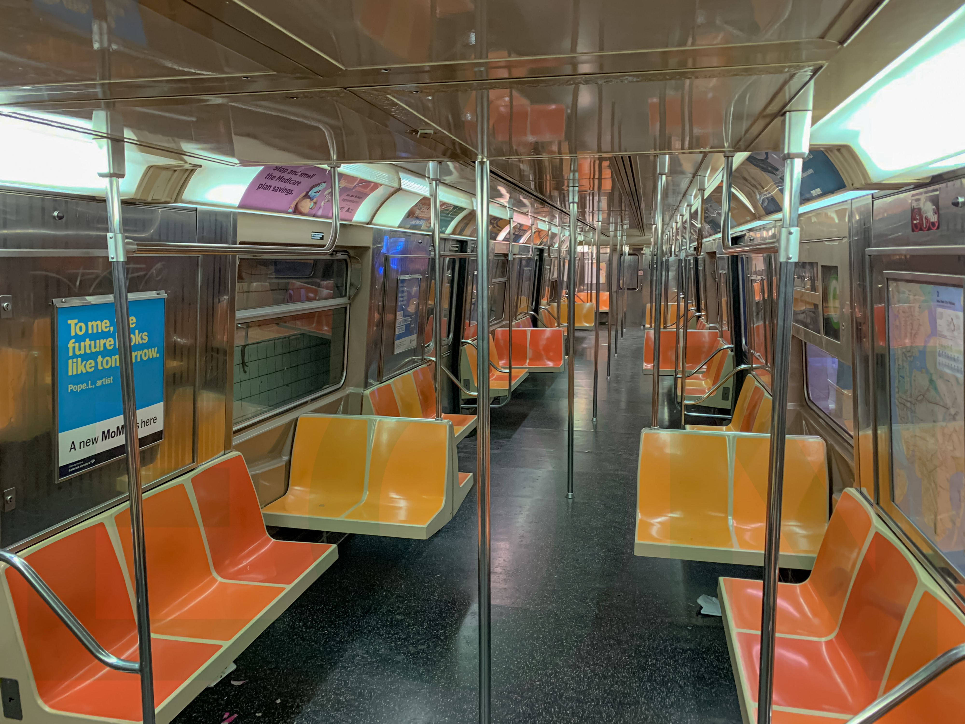 An R68A idle at Court Square awaiting to go onto its schedule to pick up passengers, empty.